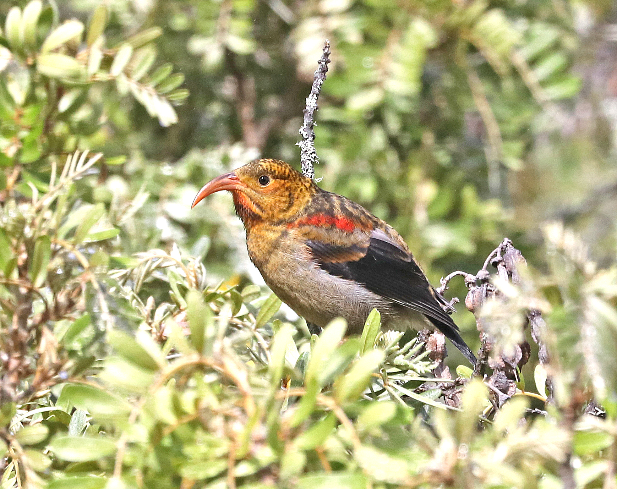 I'IWI (5-6-2018) hosmer grove, haleakala nat park, maui co, hawaii -03 imm